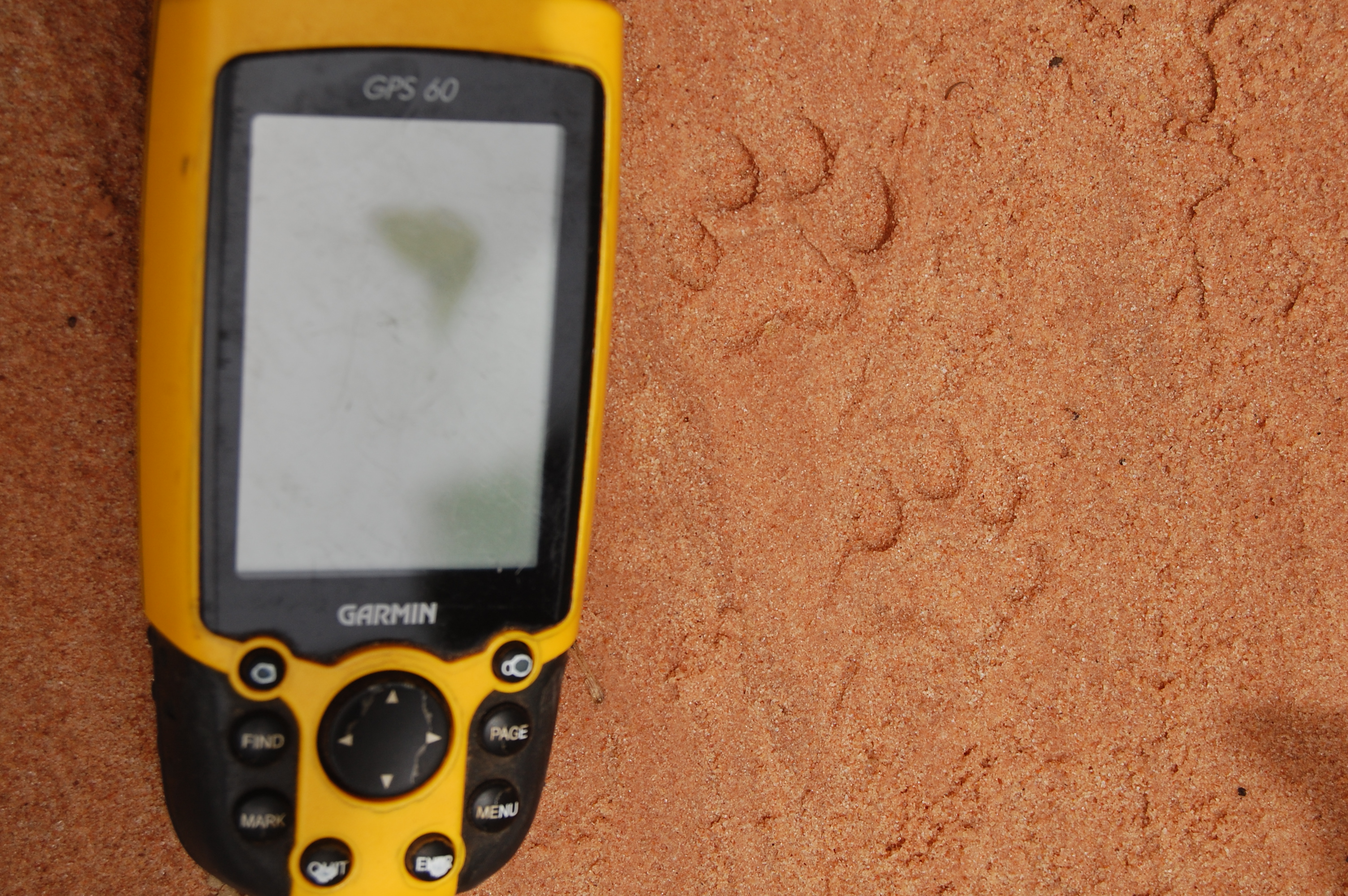 Animal tracking ; Garmin GPS 60